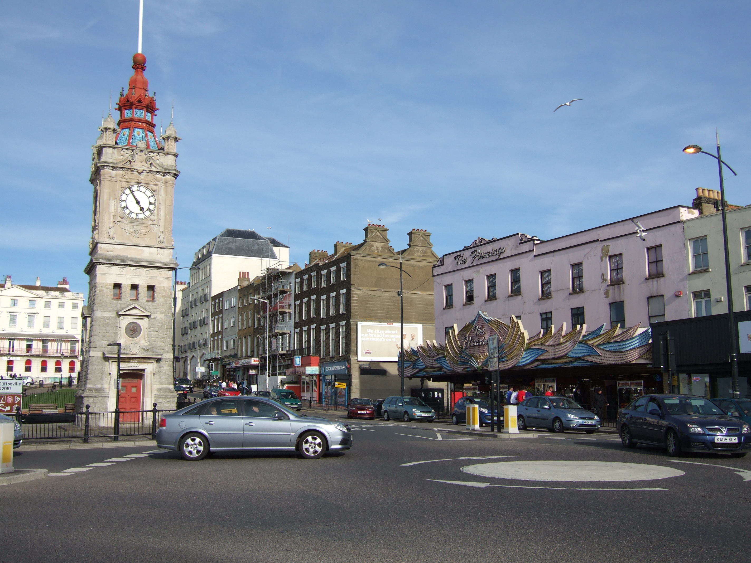 Margate, Kent, England.